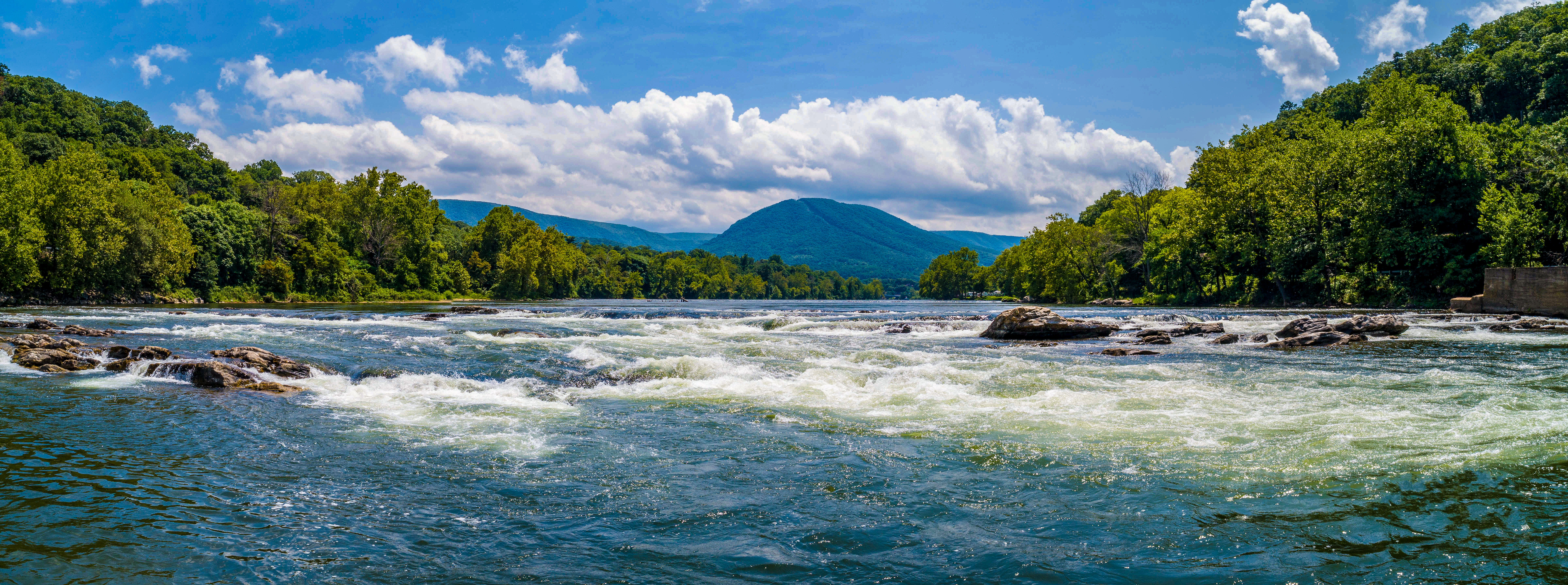 The New River rapids near the small town of Narrows, VA